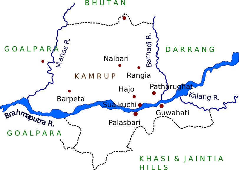 The Kamrup district, based on Gazateer of India, 1931